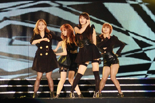 Miss A at Hallyu Dream Concert, 3 October 2011